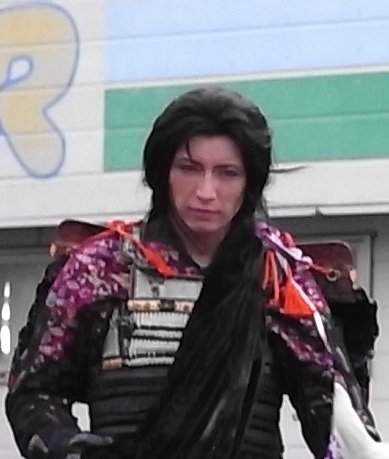 Gackt at the Kenshin Festival on August 23, 2008. Photo by simimasa.